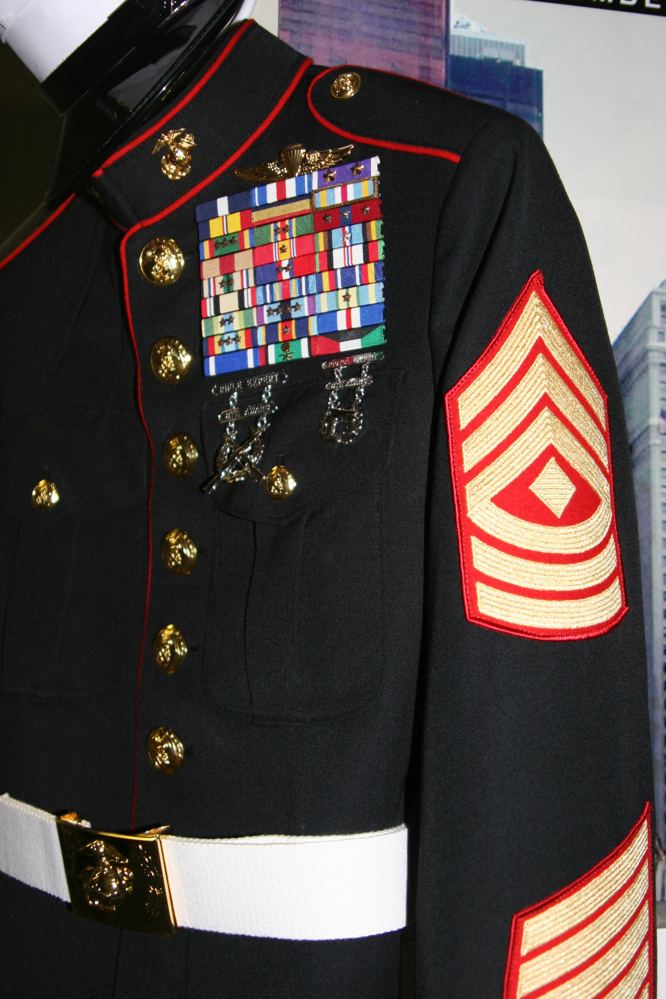 The highly decorated fake uniform worn by a man impersonating a "Marine" caught by two gunnery sergeants at Times Square in New York City, N.Y.